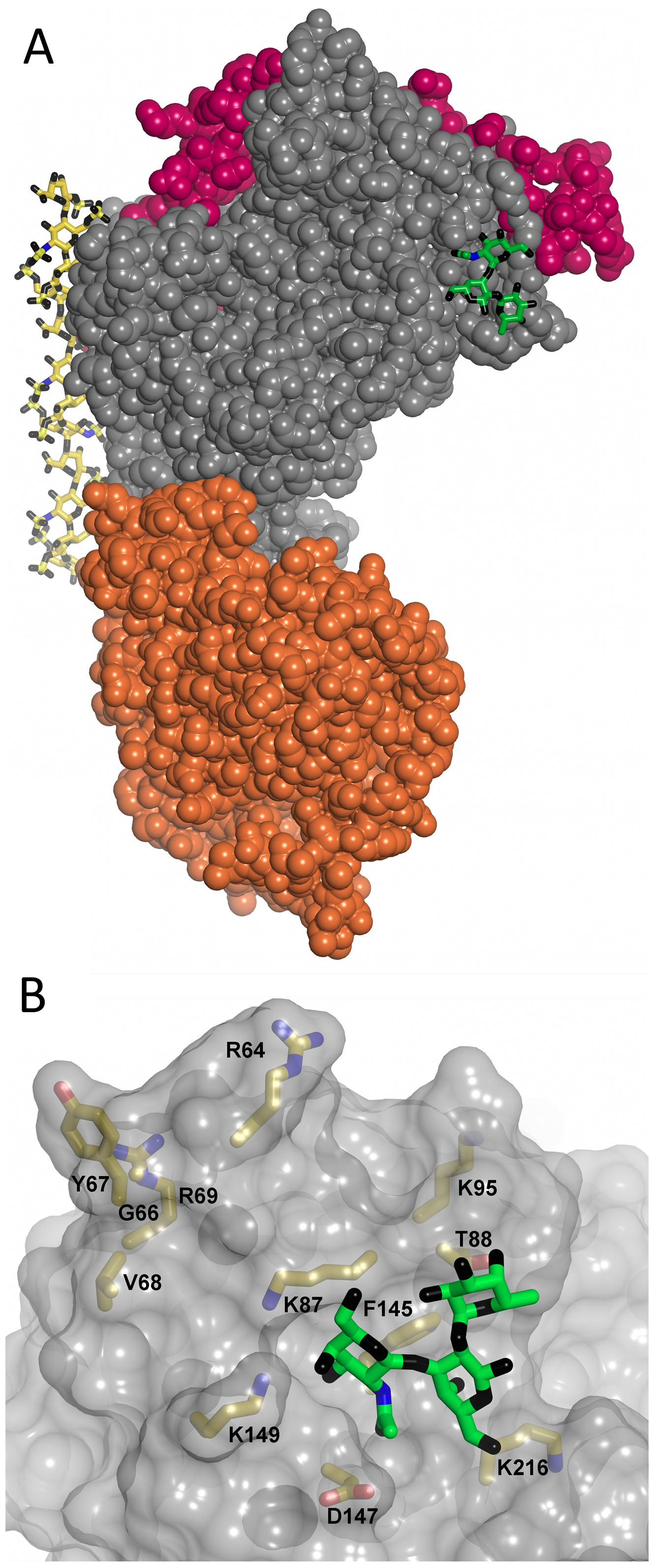 Localisation of the RBC binding site. (A) An overall view of the Head in a space-filling representation (NTS region in mauve, DBL1α1 domain in grey, CIDR1γ domain in orange) with the docked blood group A trisaccharide (green- carbon, black - oxygen and blue - nitrogen) and heparin (carbons in yellow) molecules in stick representation. (B) Detail of the RBC-binding site with side chains whose mutations affect binding highlighted (carbons in yellow, nitrogens in blue and oxygens in red).